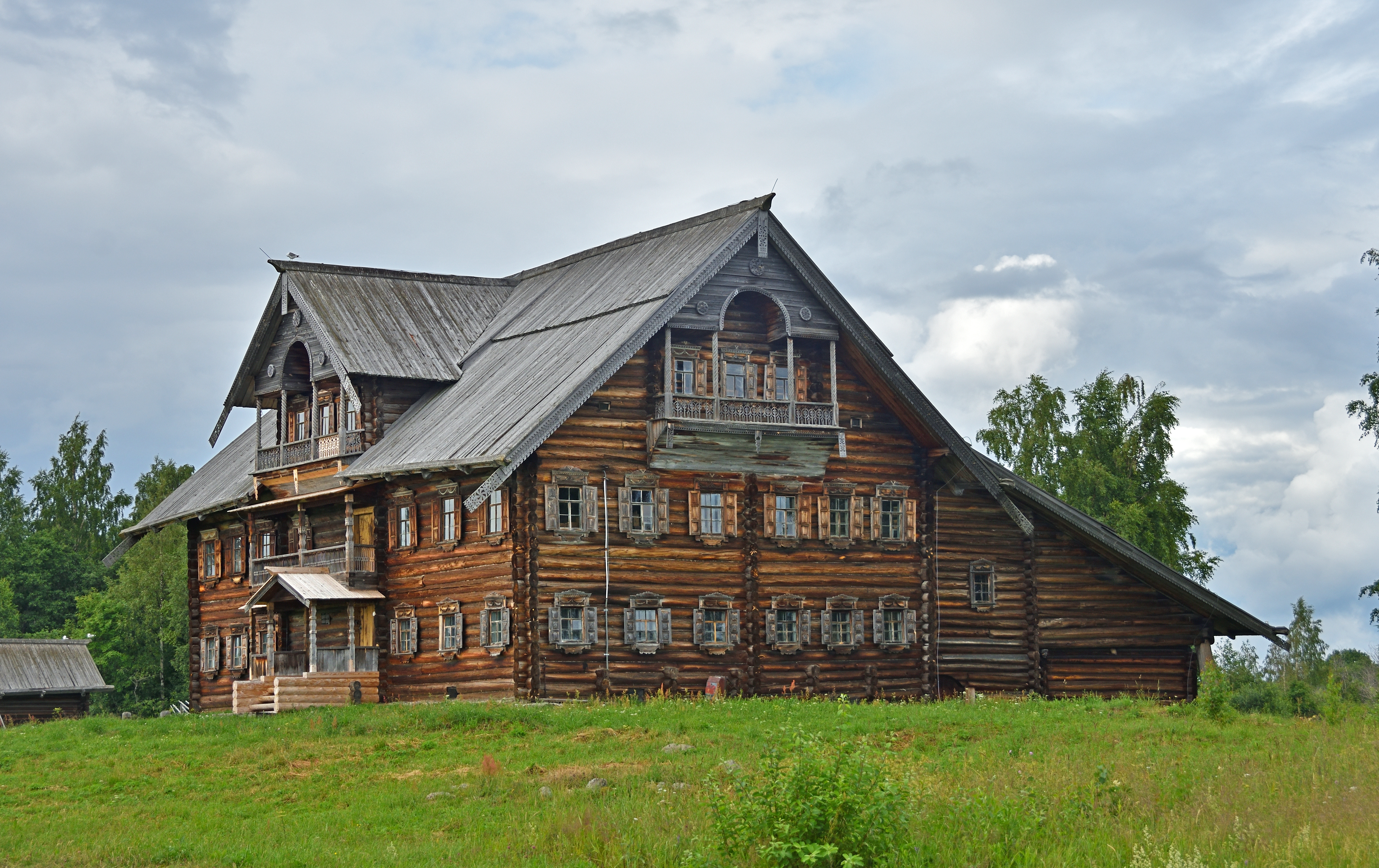 Sergin House from Munozero village - Kizhi island, Karelia, Russia